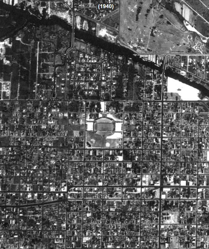 Aerial Photograph of Miami Orange Bowl (Burdine Stadium) in 1940